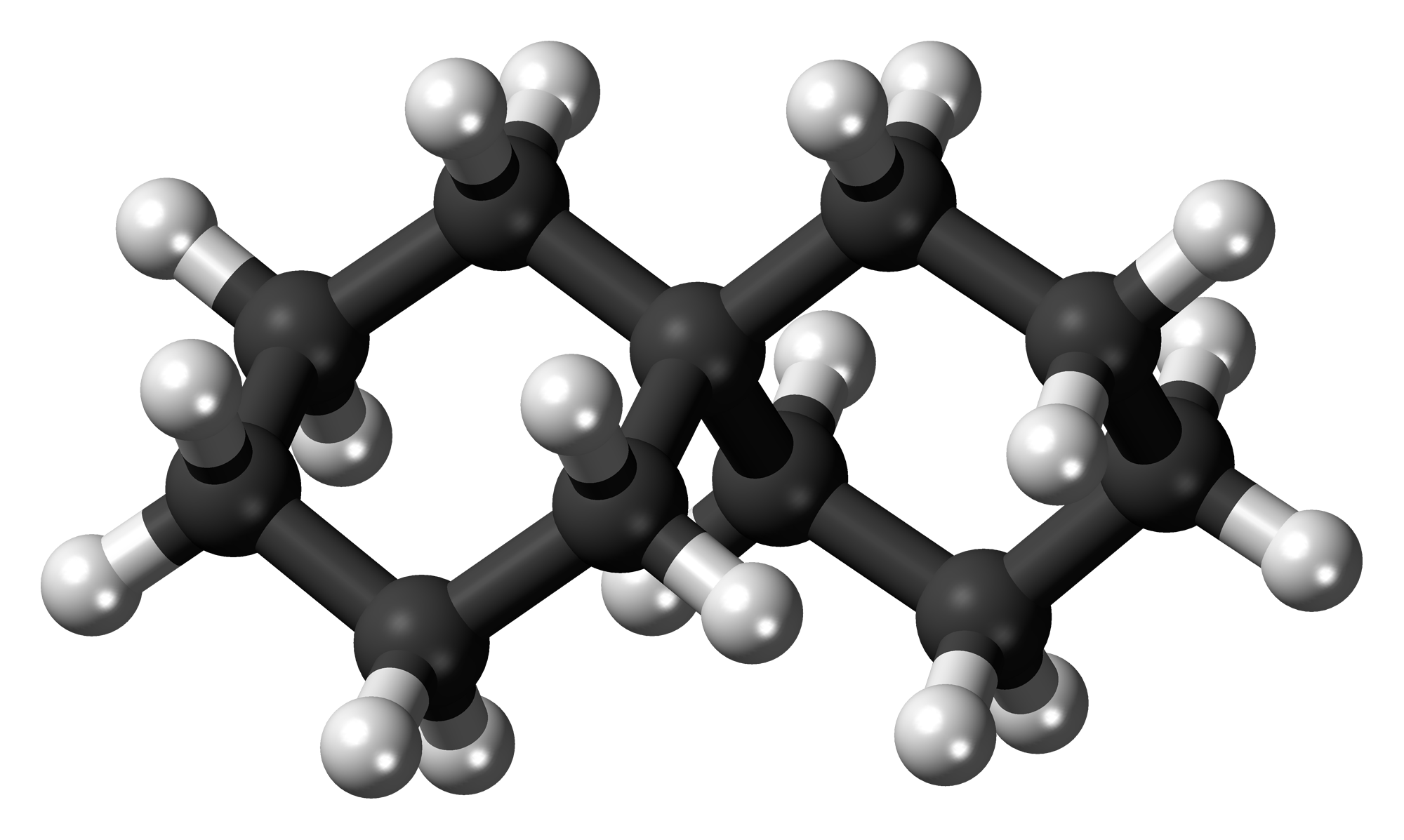 Ball-and-stick model of the Spiro[5.5]undecane molecule, an example of a spiro compound, with two rings connected through just one atom. Colour code: Carbon, C: black Hydrogen, H: white